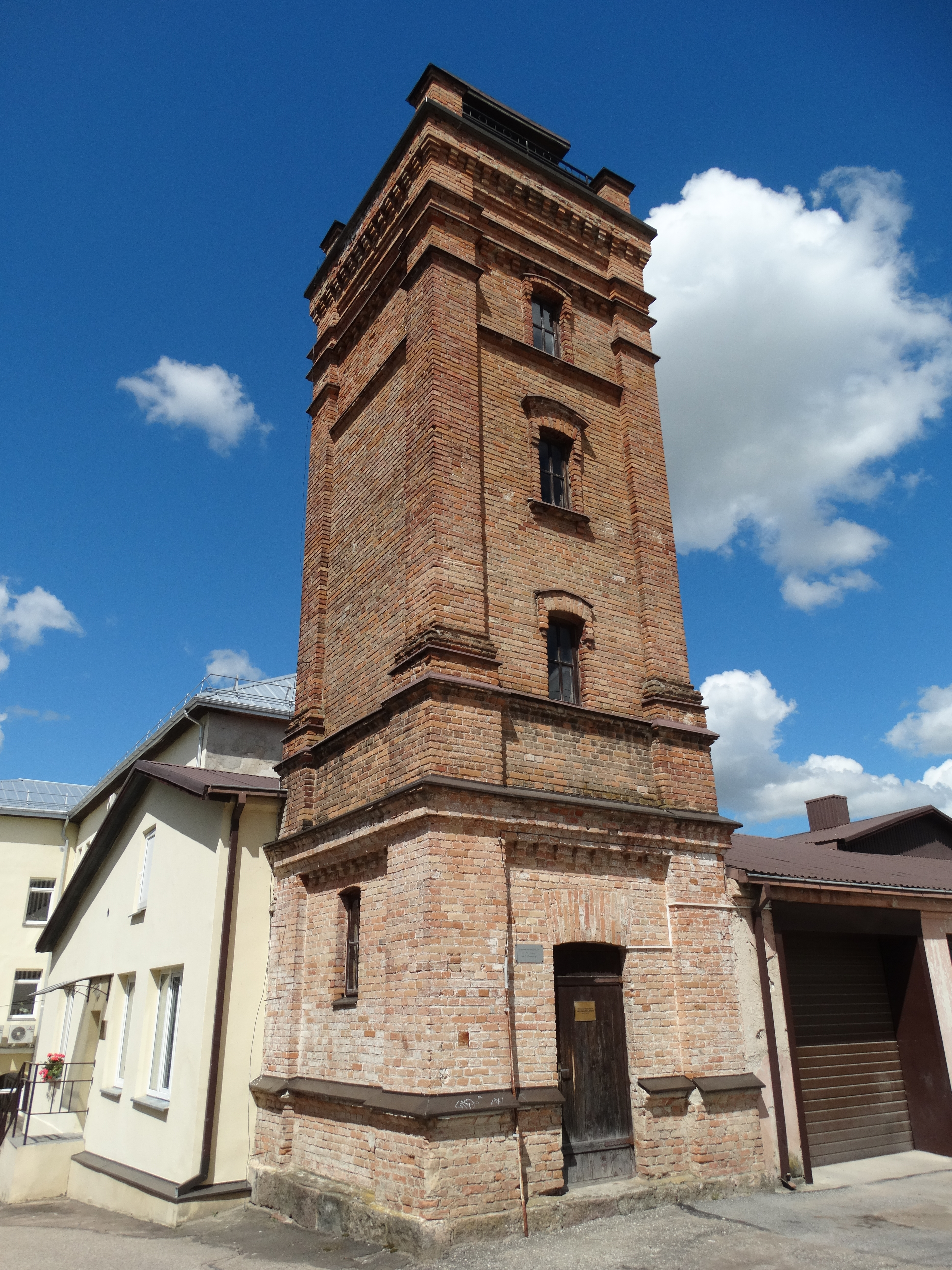 Ukmergė, Lithuania